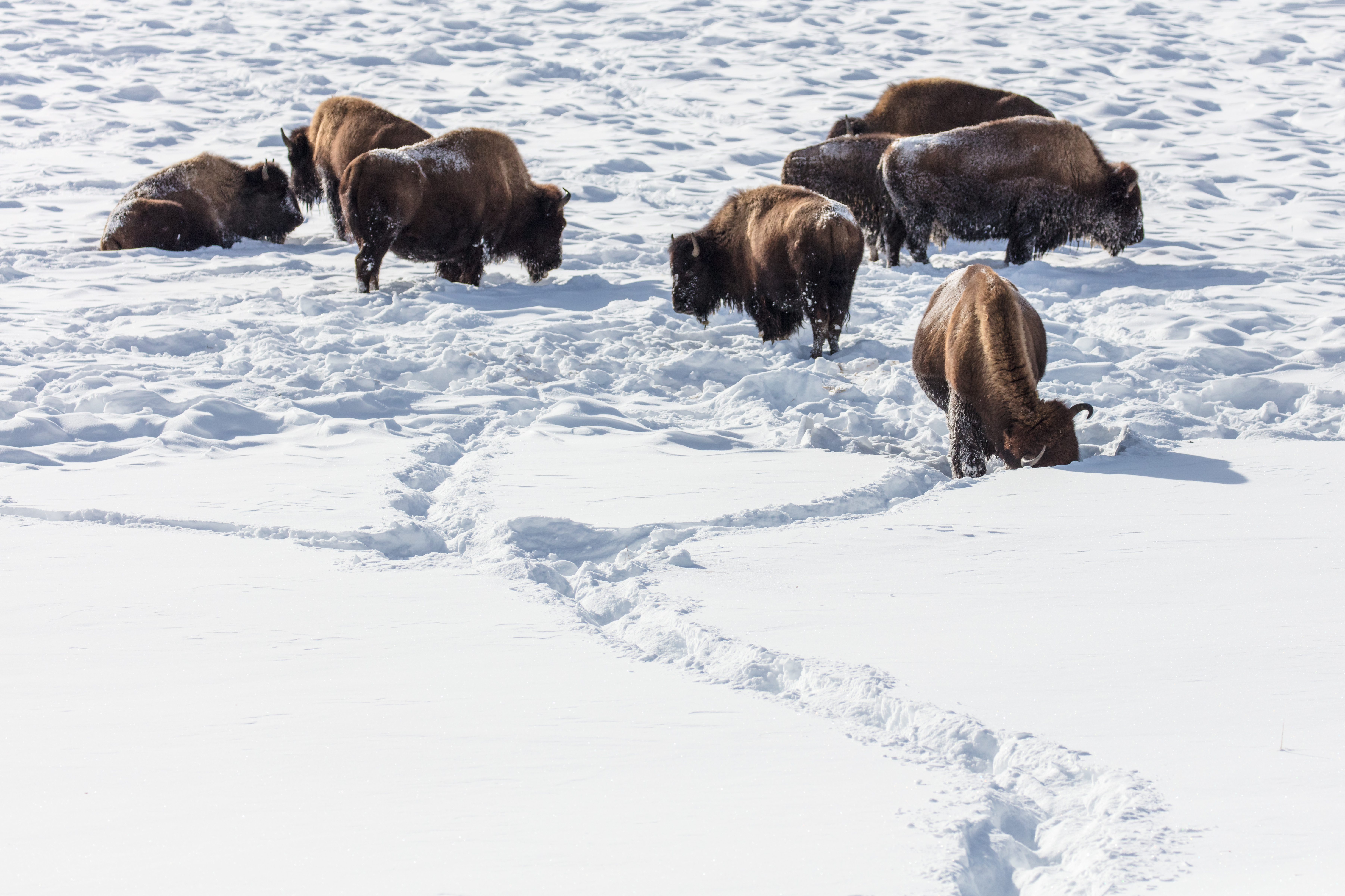 A group of bison stand and feed in the snow Bison feeding along the Madison River in winter Keywords: yellowstone national park; mammals; wildlife; bison; bison bison; jacob w. frank; snow; winter; yellowstone; 20170106-jwf-2022